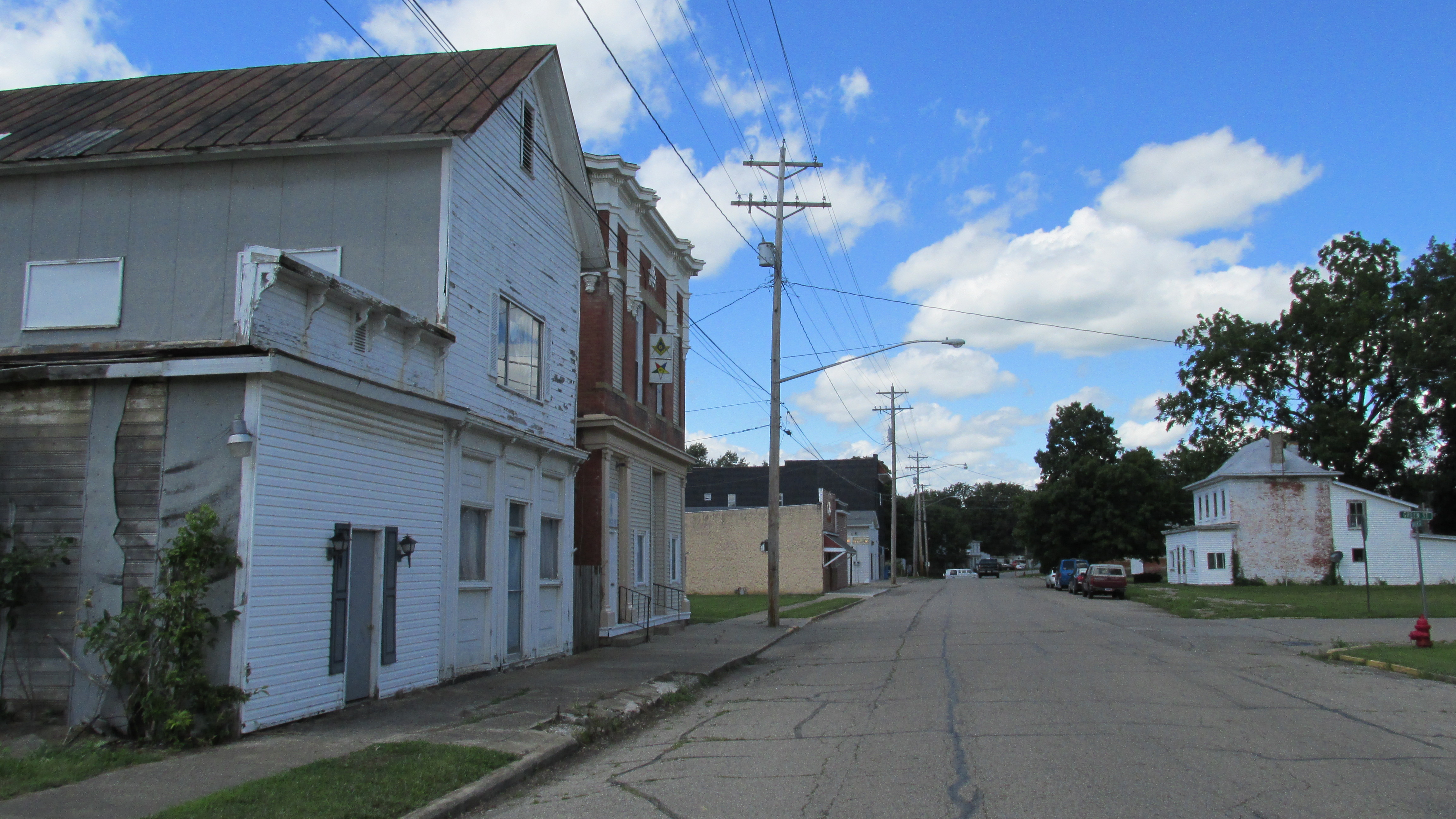 Looking north on South Water Street in Williamsport.